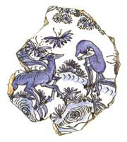 Paintings on ceramics. Was founded in Shabran, Azerbaijan